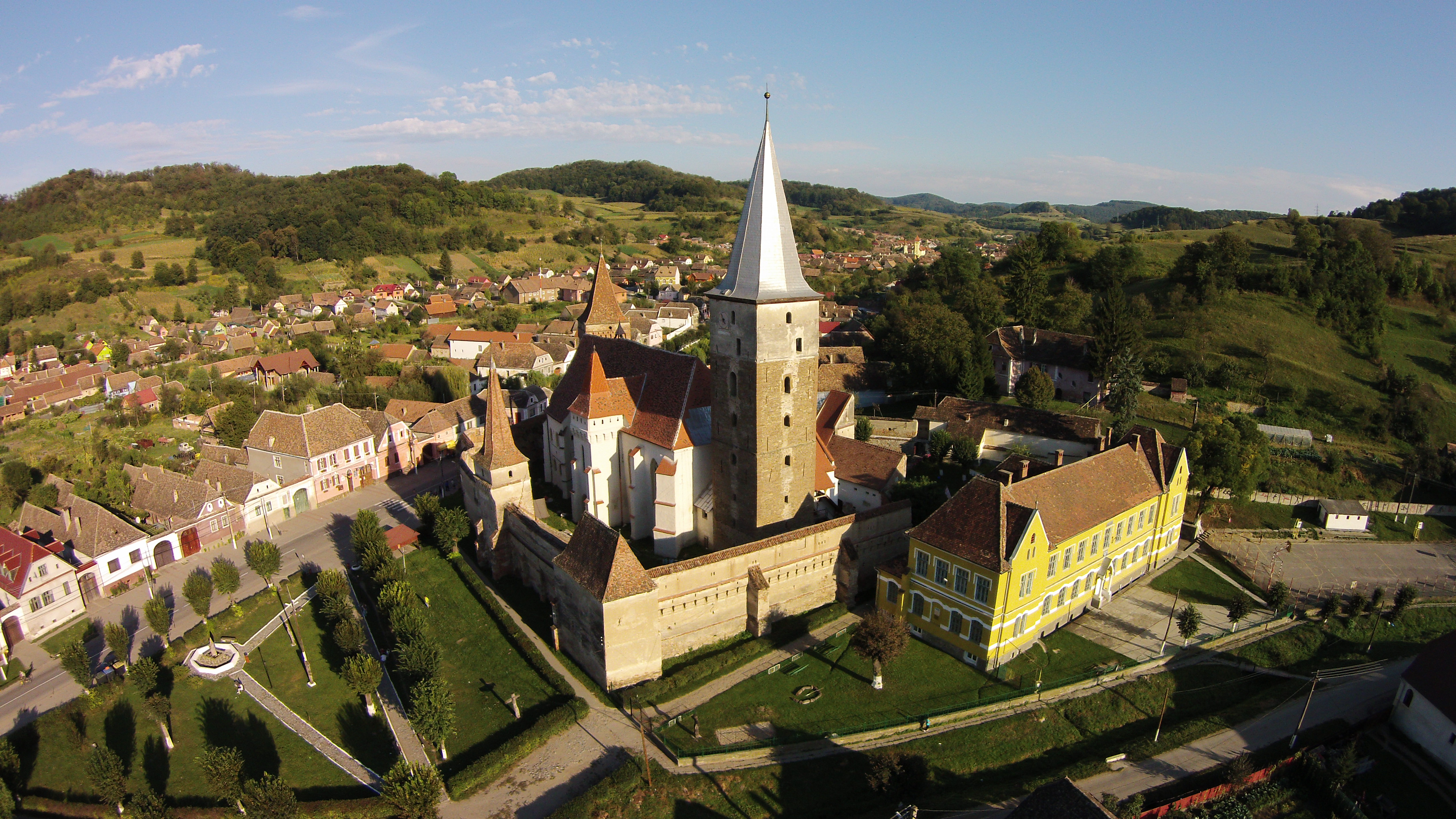 Evangelic fortified church MoșnaRomână : Biserica fortificată din satul Moșna